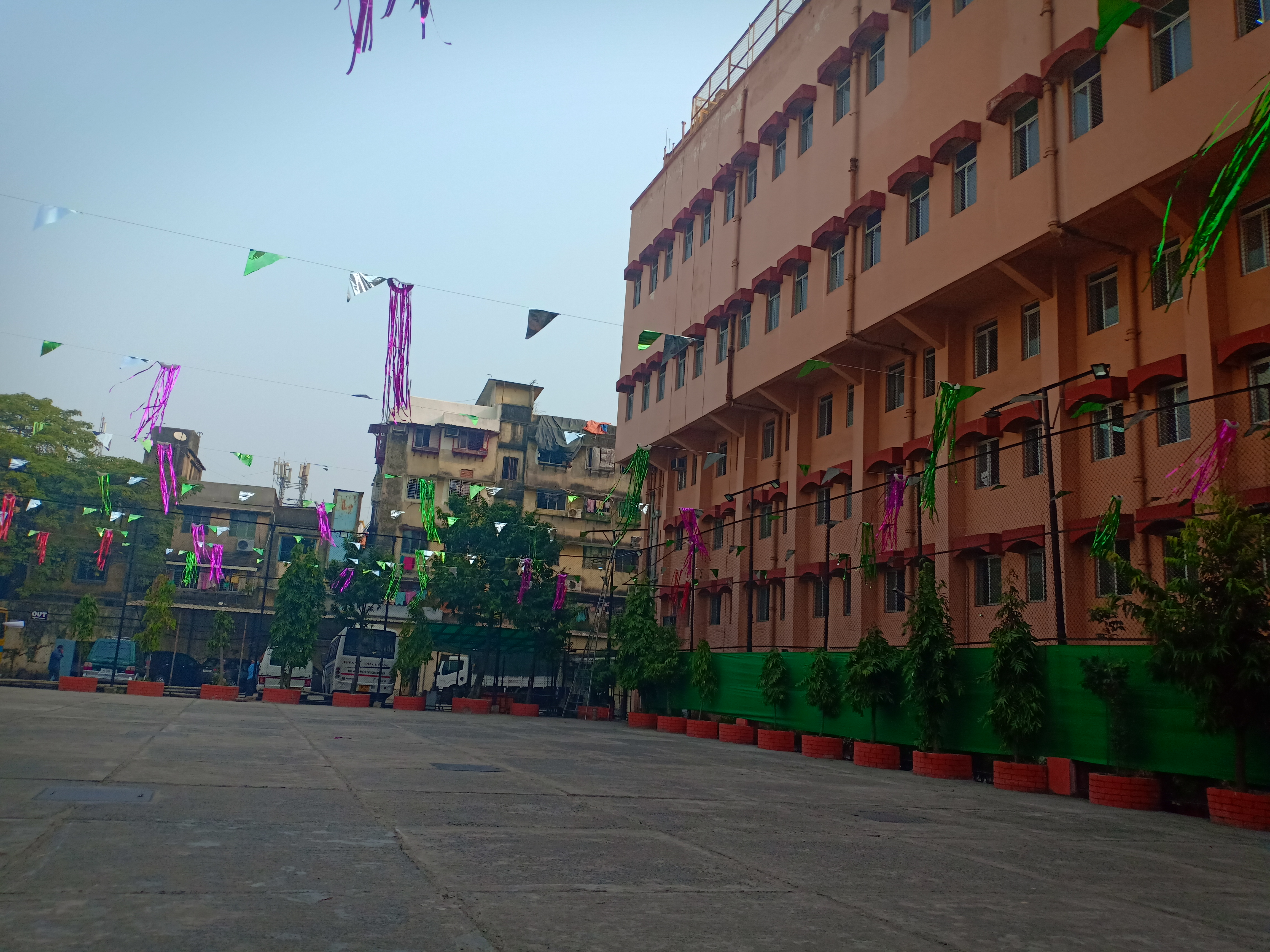 The school ground